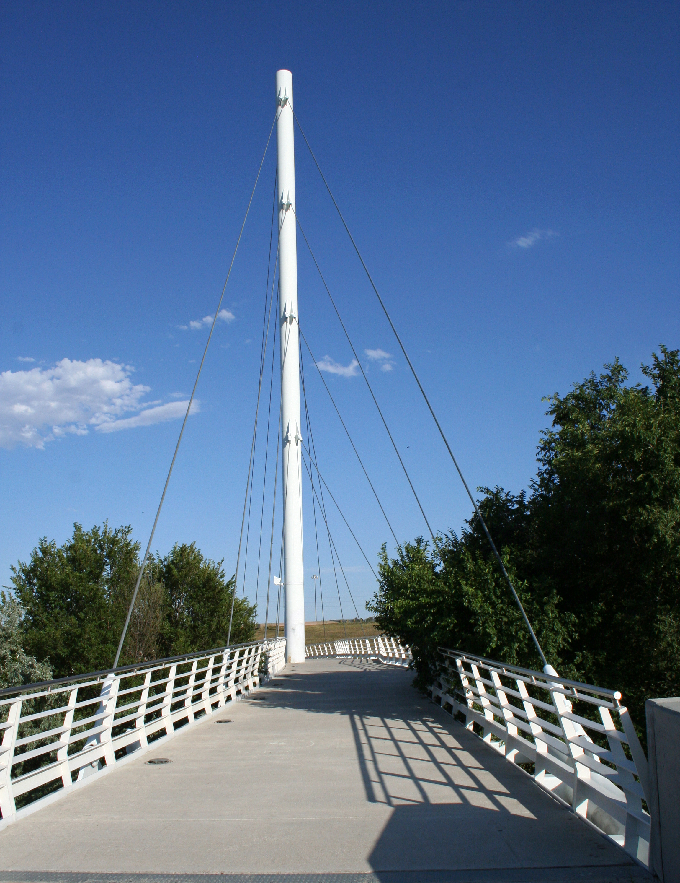 Cable-stayed bridge at Gold Strike Park in Arvada, Colorado.